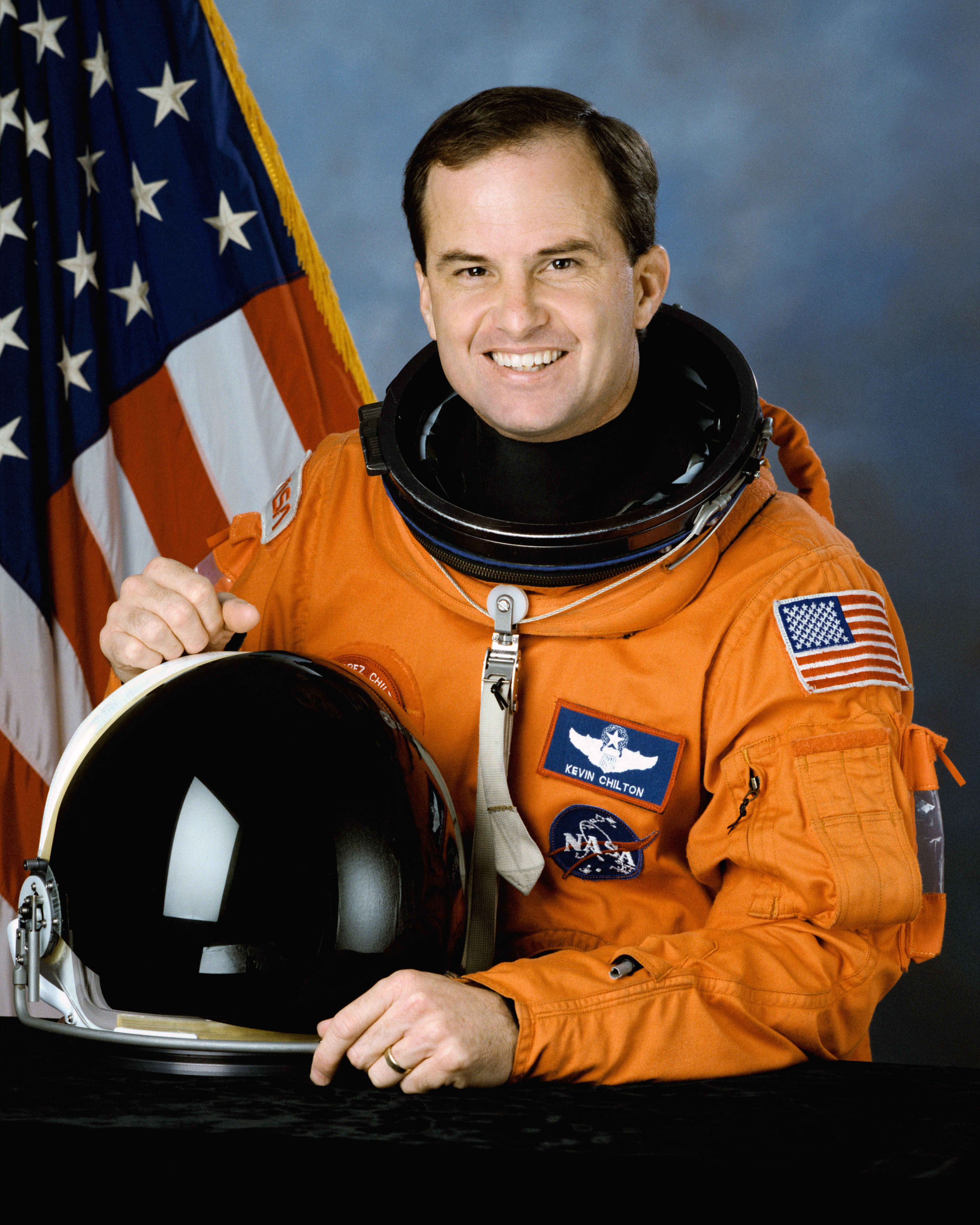 Portrait of astronaut Kevin P. Chilton Official portrait of Astronaut Kevin P. Chilton in an orange launch and entry suit with his helmet on the table in front of him.